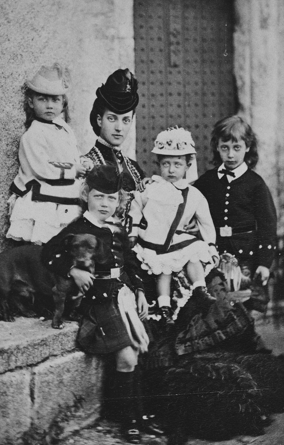 Alexandra, Pss of Wales, seated outside doorway w. her 4 eldest children, Abergeldie 1870. Left to r.: Pss Louise; P. George, his arm round dog; Pss Alexandra; Pss Victoria, on her mother's lap; P. Albert Victor. Both boys in Highland dress